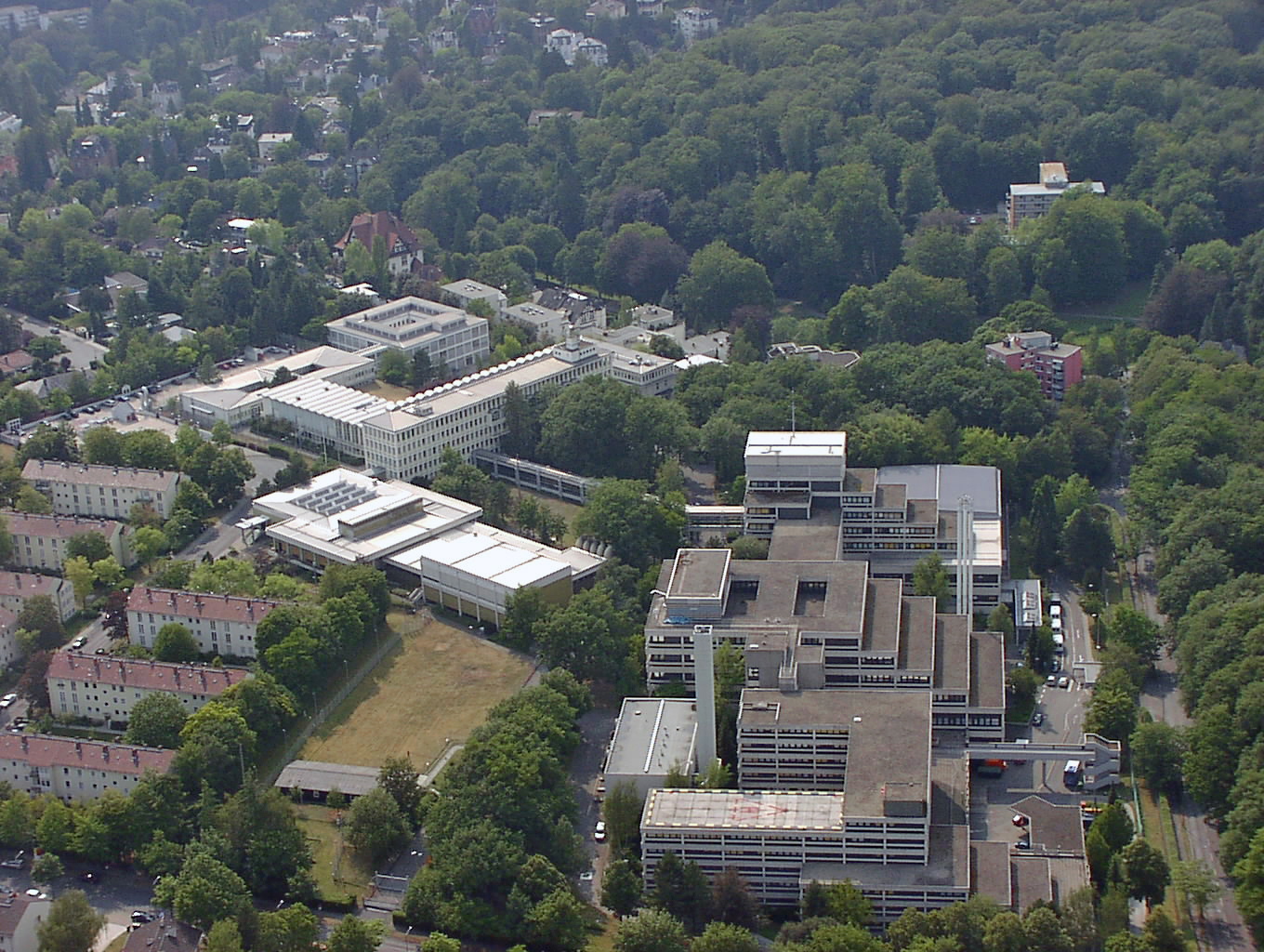 Aerial photograph of the Federal Criminal Police Office in Wiesbaden